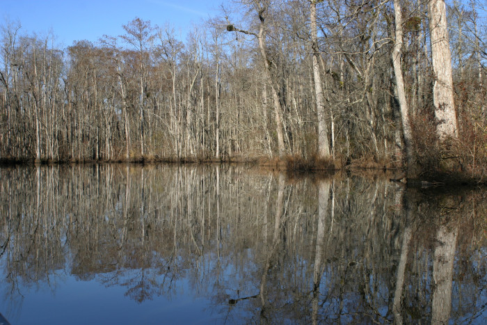 The Perquimans River, north of North Carolina Route 37 in Belvidere.Photo was taken by me on December 29, 2006. Henryhartley 18:03, 9 January 2007 (UTC)